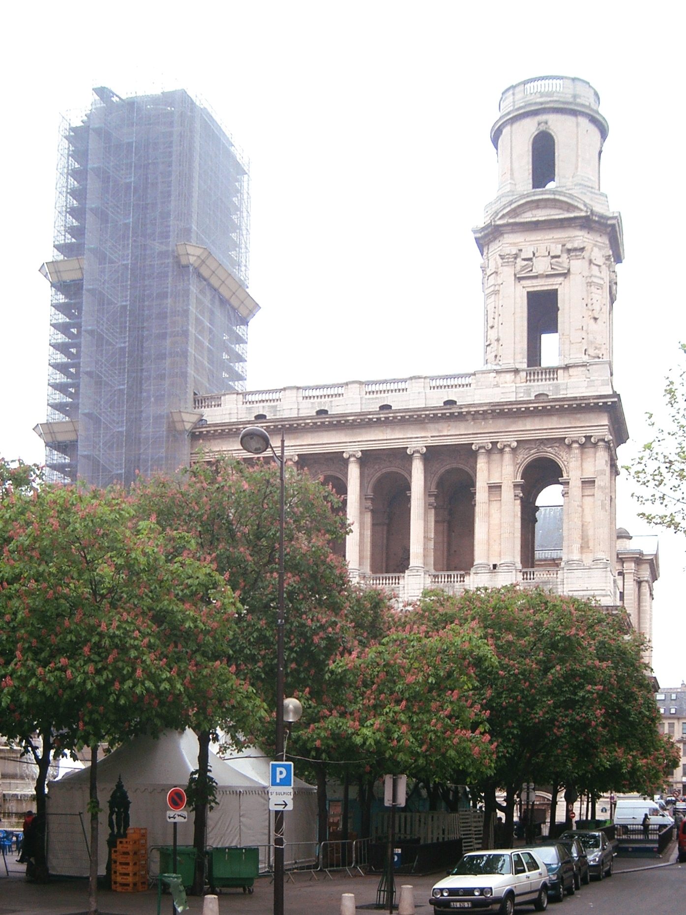 Church St-Sulpice in Paris. Built as of 1649, fassade as of 1732.